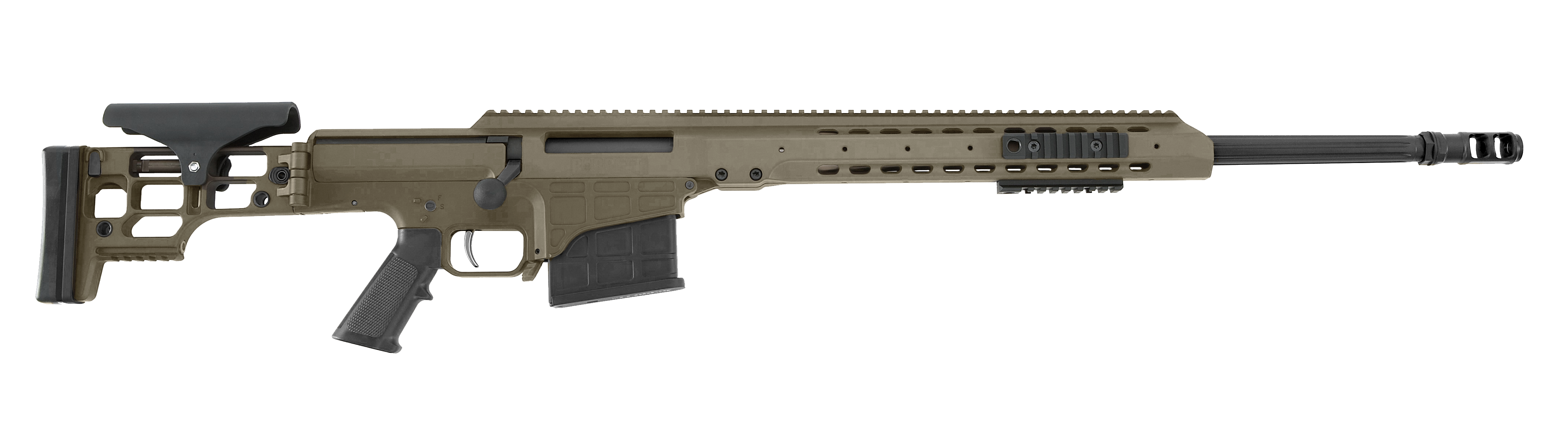 YAMAM (Israel's Counter-Terrorism Unit) Barrett MRAD modular bolt-action sniper rifle